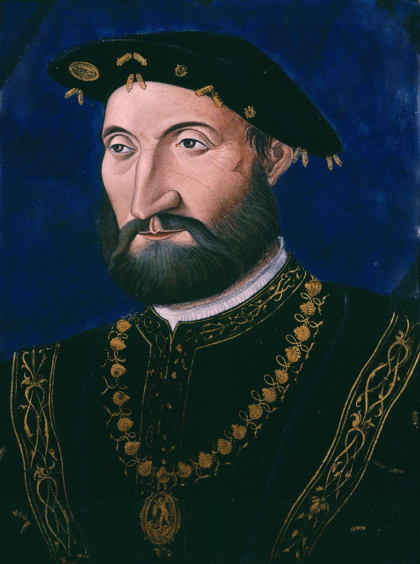 Portrait of Guy Chabot, Baron de Jarnac (1514-1584)